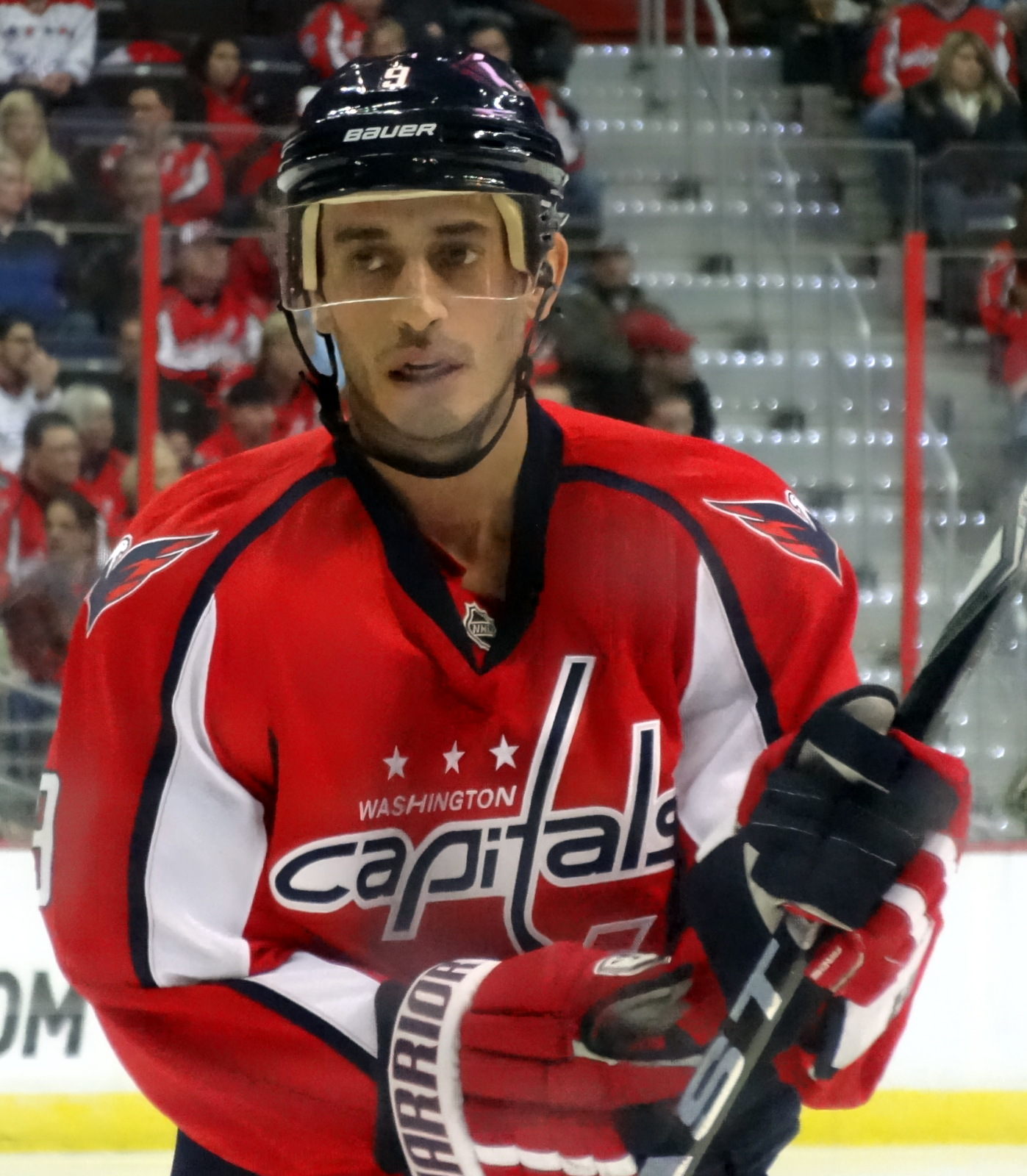 Washington Capitals center Mike Ribeiro prepares to resume play in the third period of a February 3, 2013 game against the Pittsburgh Penguins at Verizon Center in Washington, D.C.